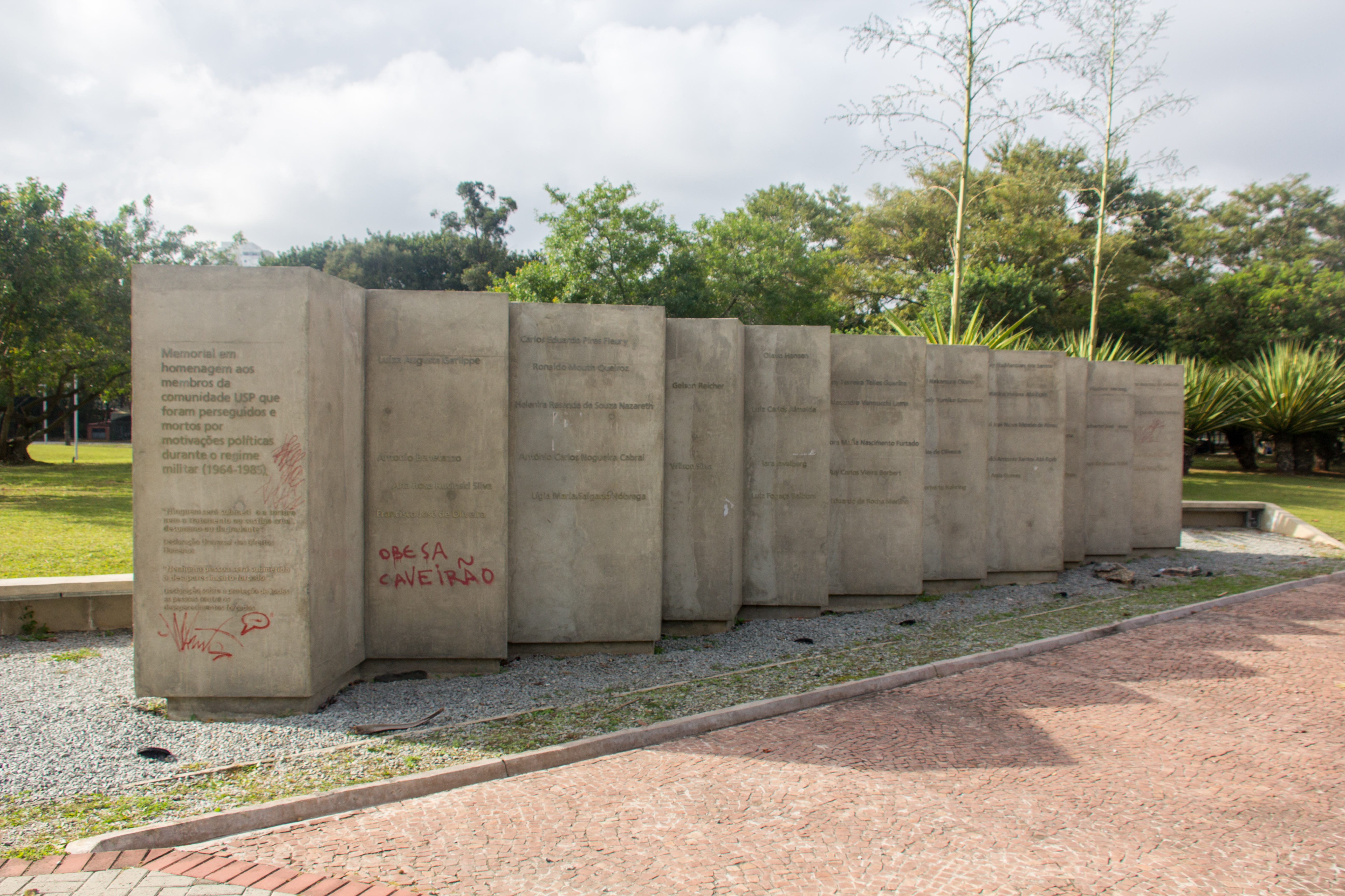 University of São Paulo, São Paulo, Brazil